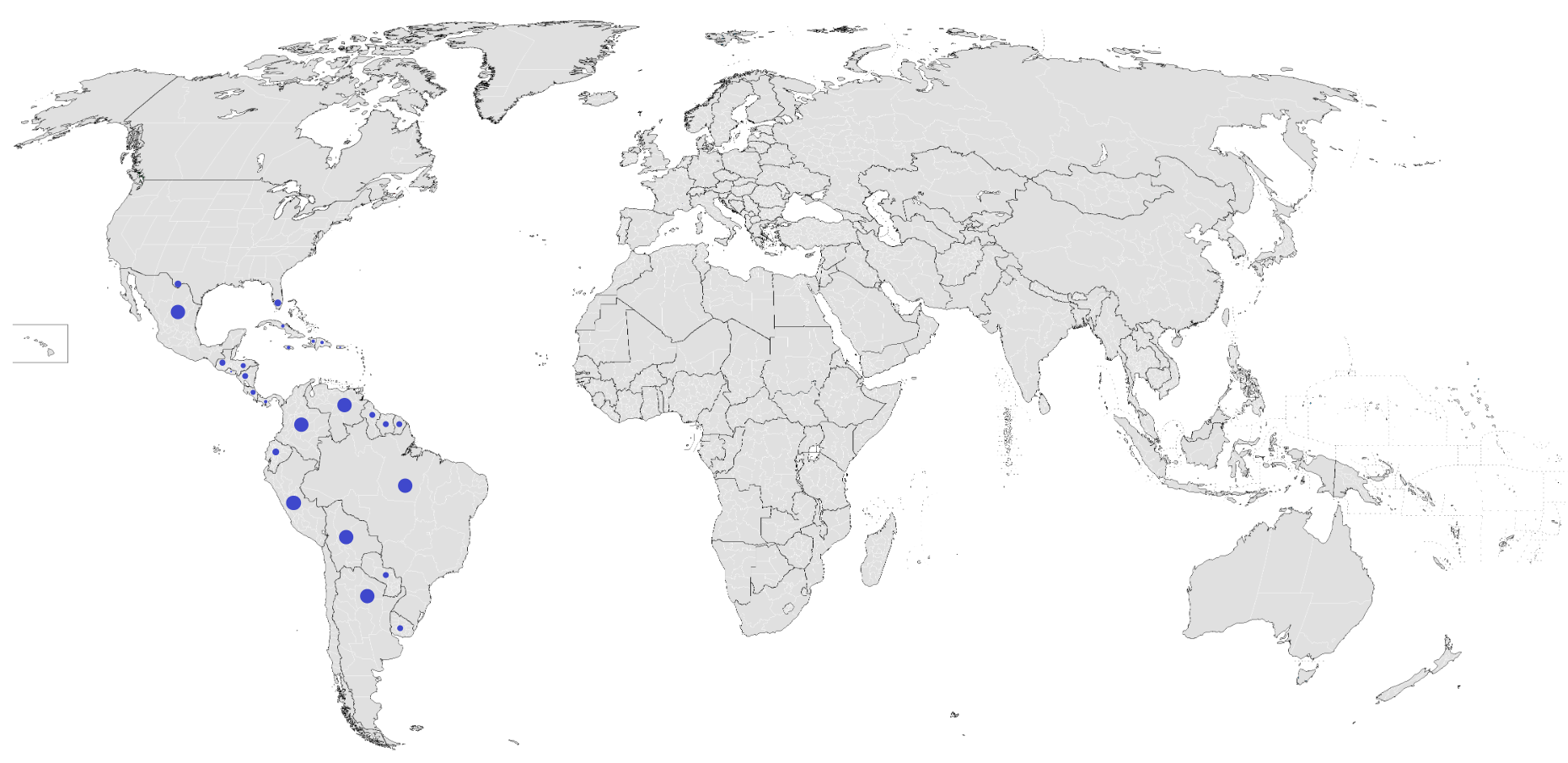 modification of World blank map (grey & white) uploaded by Mariomassone